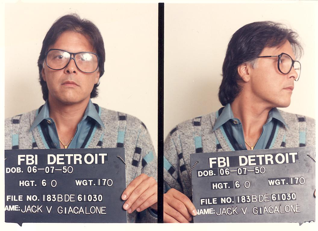 Reputed Detroit Partnership member Jackie Giacalone